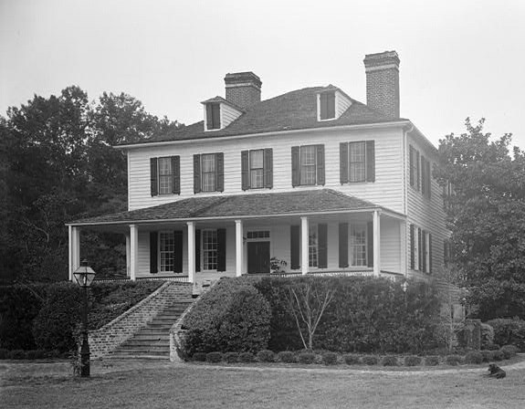 Lewisfield, U.S. Route 52 vicinity, Moncks Corner vicinity (Berkeley County, South Carolina) - cropped